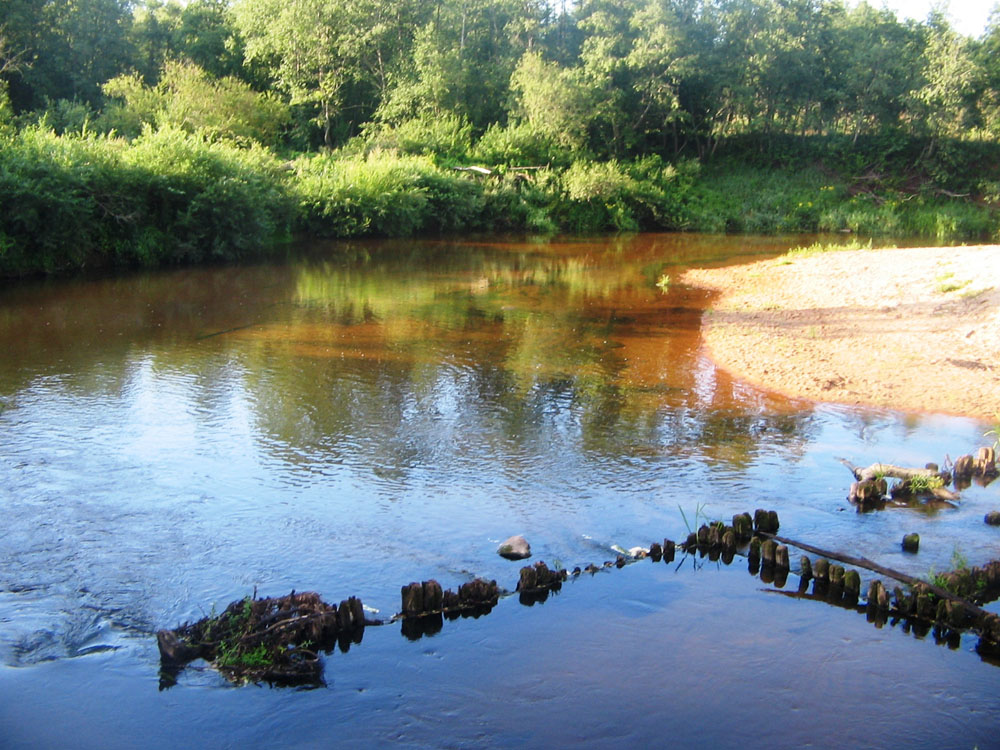 Remains of mill's stanch